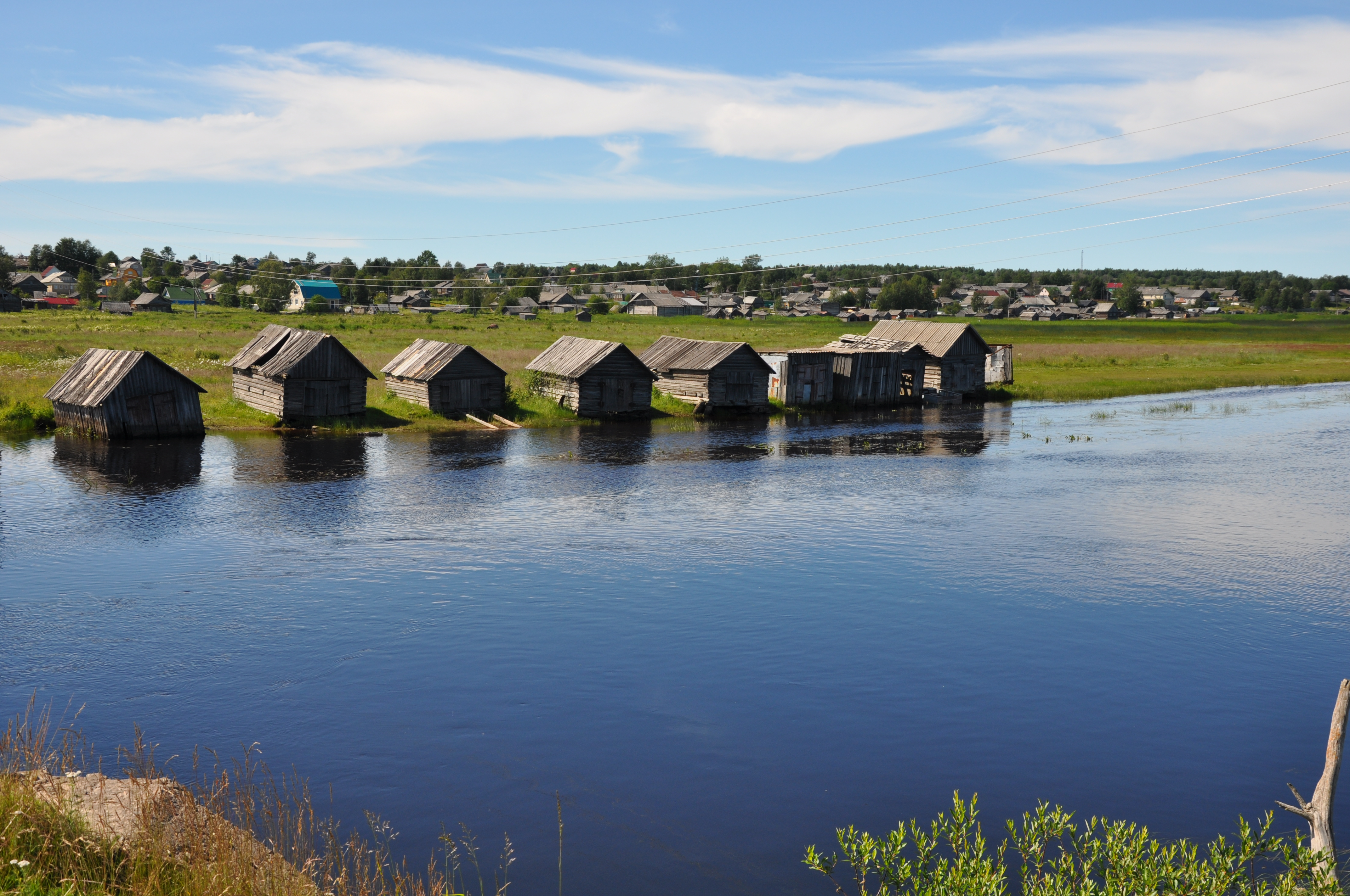 Лодочные на Верховке (Нёнокса)